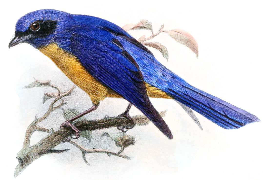 « Cyornis vivida » = Niltava vivida vivida (Subspecies of Vivid Niltava)